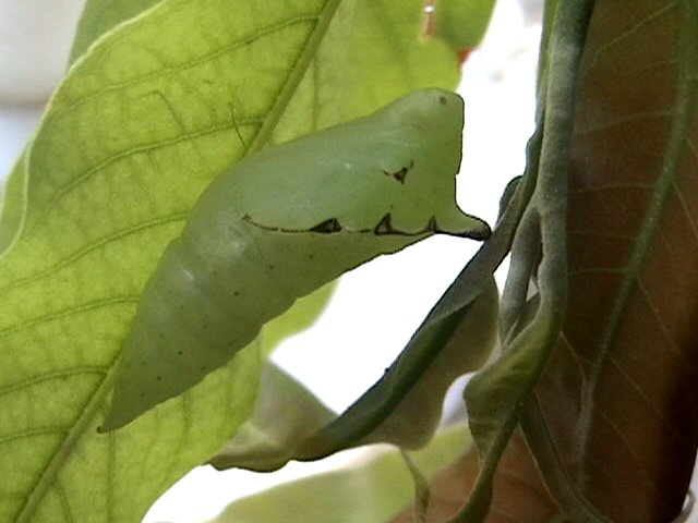 Tailed Jay (Graphium agamemnon) pupa